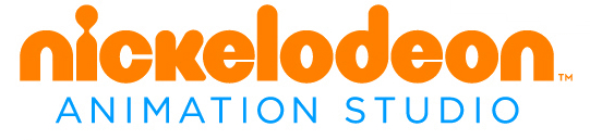 Nickelodeon Animation Studio logo